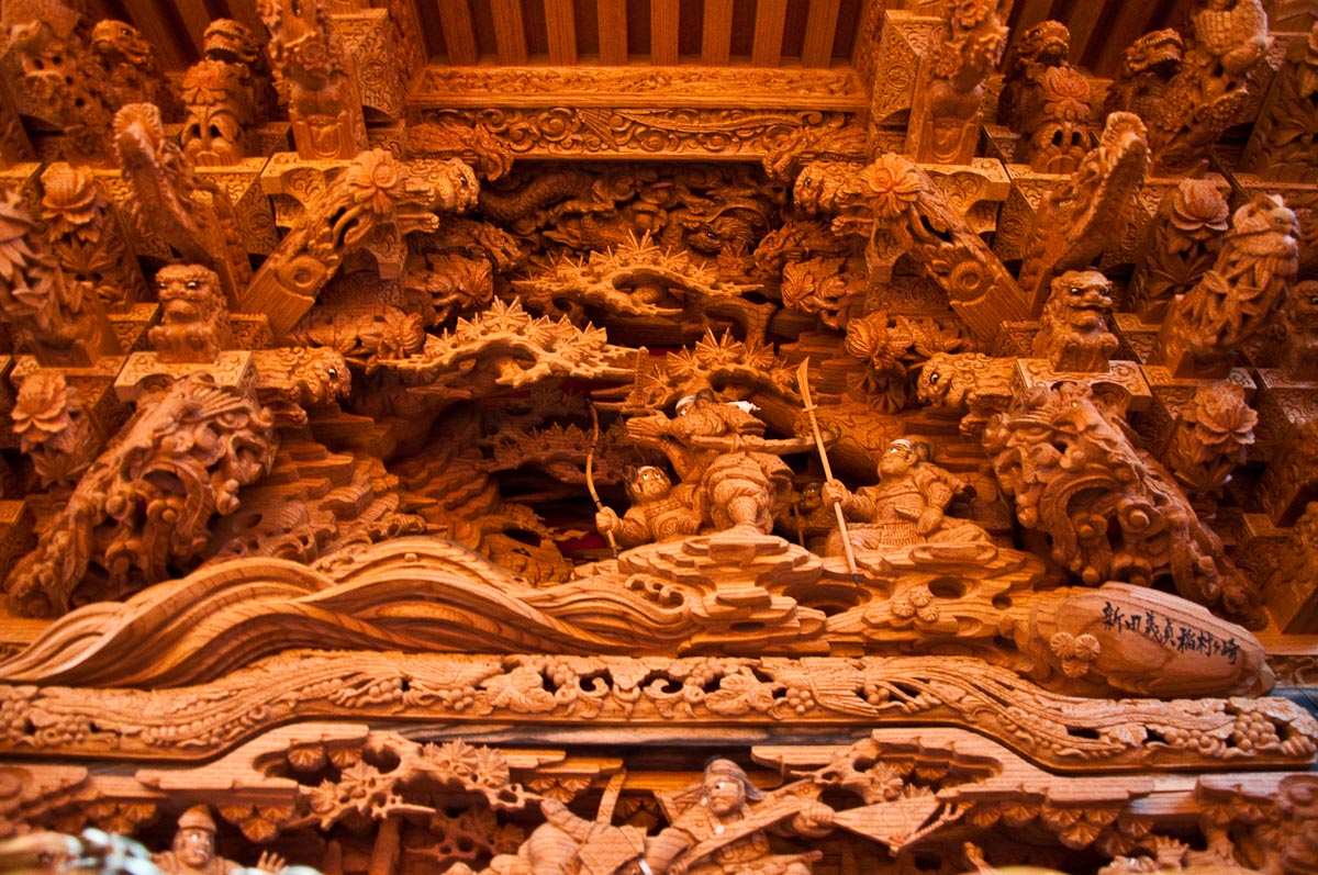 Beautiful wood carvings inside one of the Danjiri carts at the 2009 Kishiwada Danjiri Matsuri in Osaka Japan.